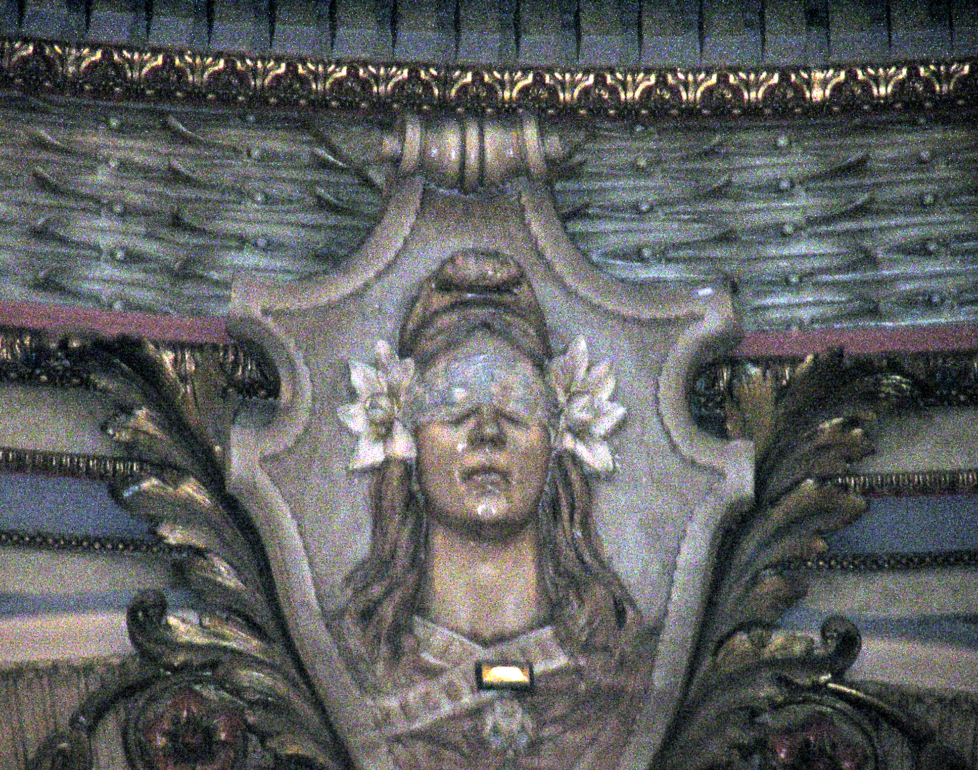 Blind Justice: Blind Justice - Taken at the State Capitol in Mississippi.